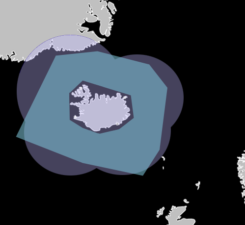 A map displaying the IADS Radar coverage and Iceland Air Defence zone